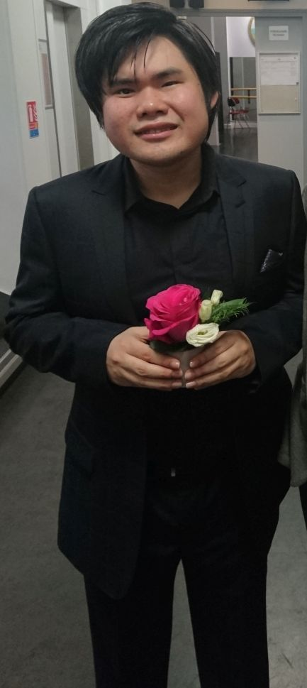 Pianist Nobuyuki Tsujii, backstage after a recital performed at the Théâtre des Champs-Elysées in Paris, 2020.